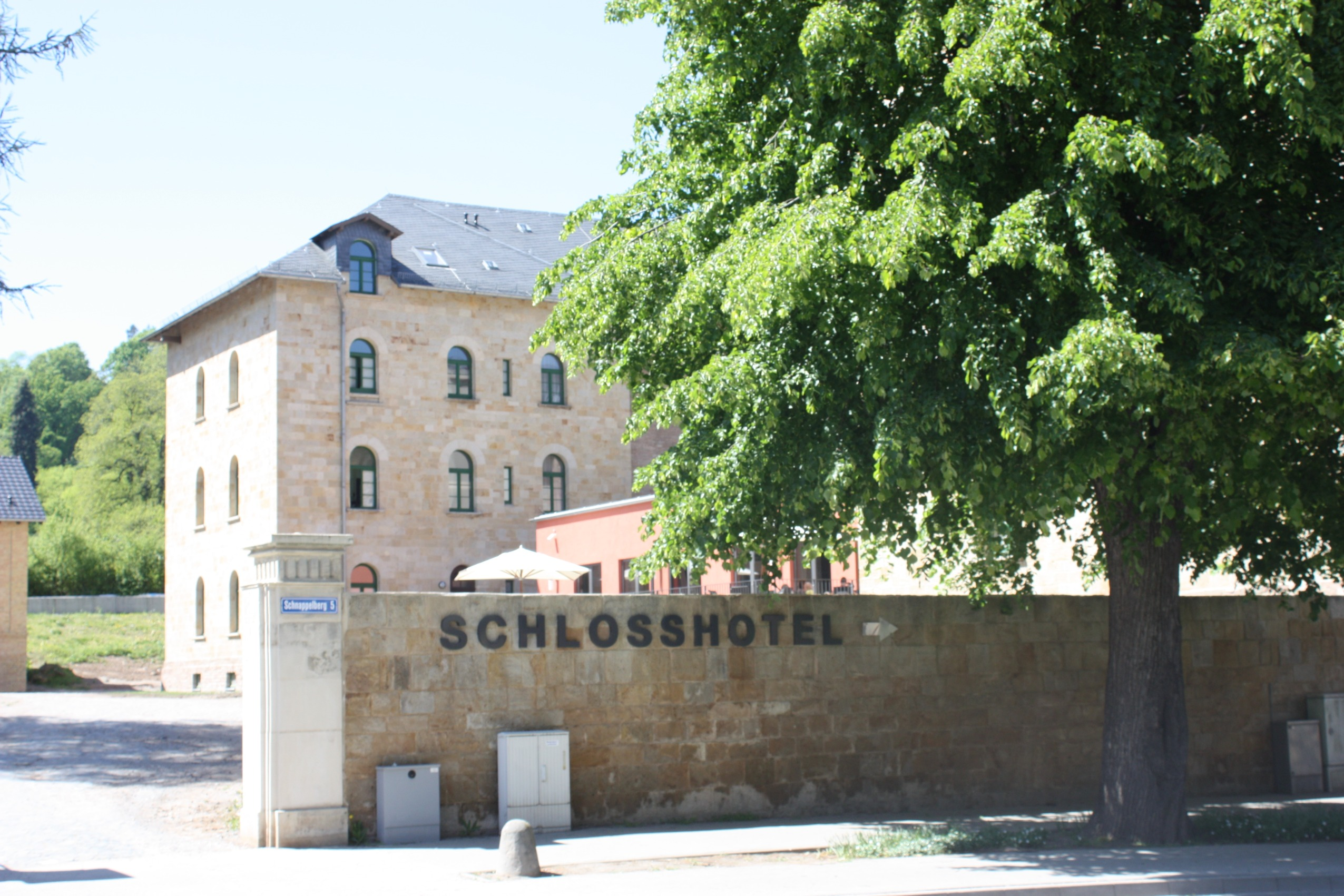 Blankenburg, the Schlosshotel